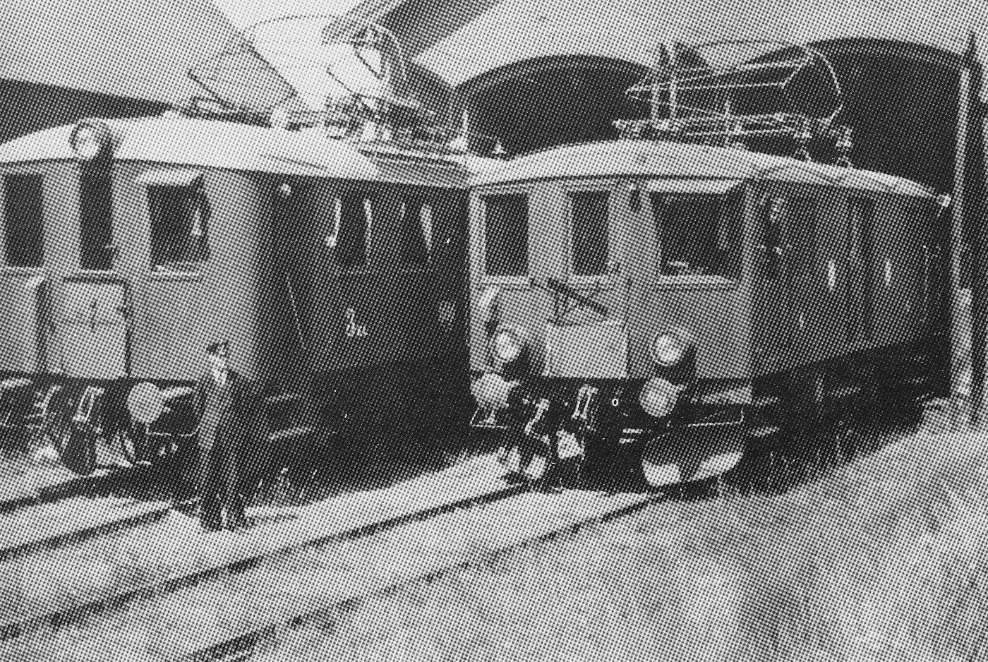 Multiple unit no. 7 and Locomotive no. 6 of BLHJ in front of the engine shed at Lund Western staion.